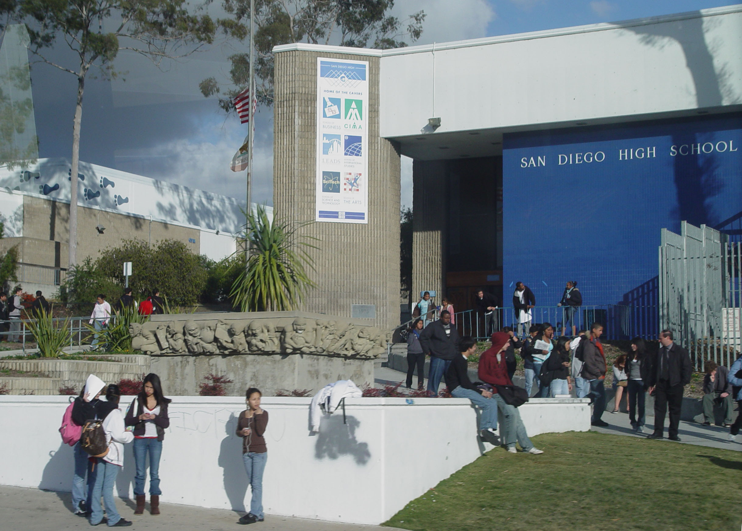 This is a picture of the 100 building of San Diego High School, as it is seen from Park Blvd.